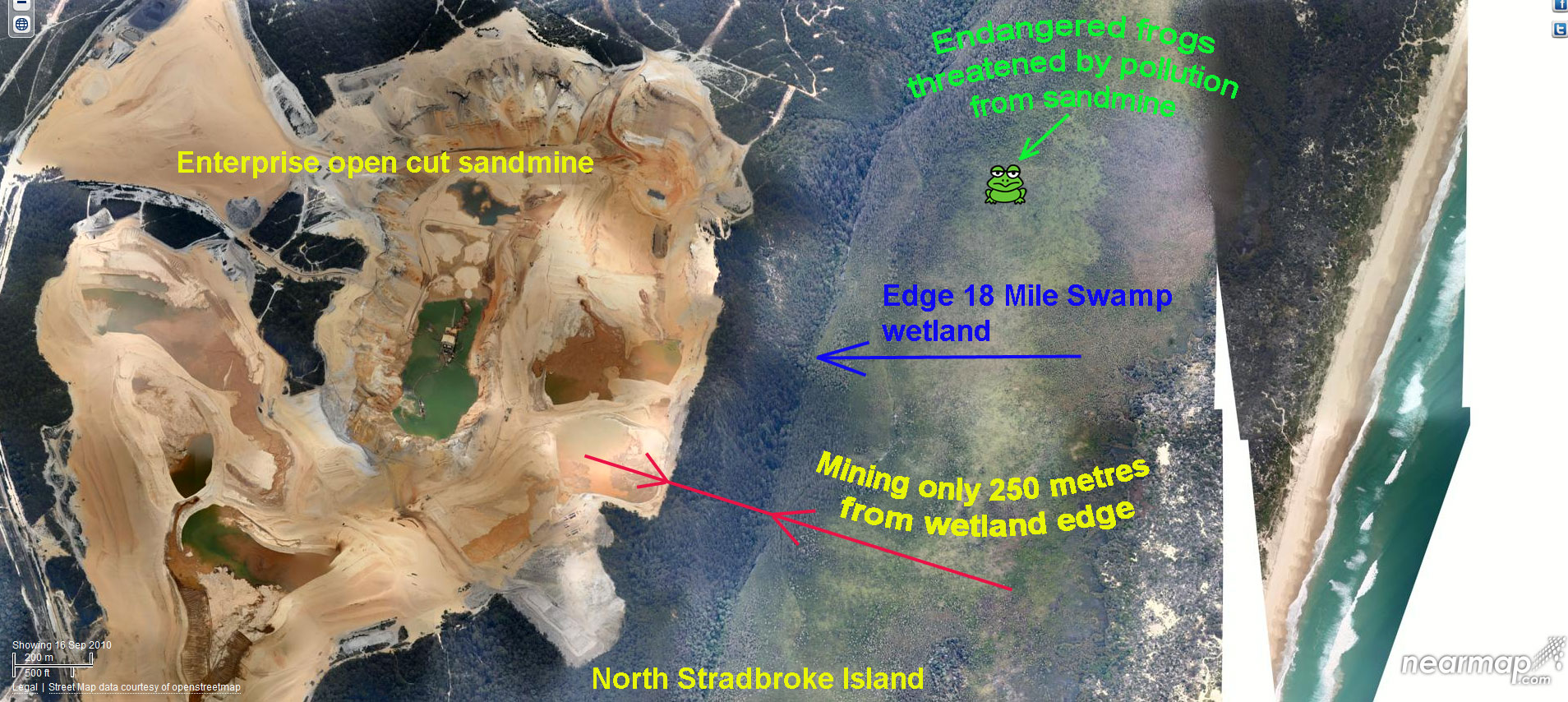 Unique sedge wetland containing many endangered, threatened and unique species of flora and fauna whose close proximity to the Enterprise sand mine place it at risk of damage.Ariel view of the 18 Mile Swamp and the Enterprise sand mine, operated by Sibelco Australia. Sibelco Australia is a privately held company, part of SCR-Sibelco Nv, owned by the the Emsens, a wealthy Begian family, and one of the top 100 mining companies in the world.